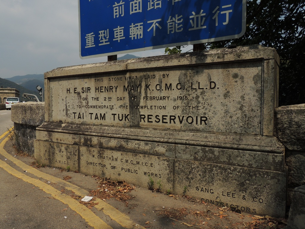 Memorial Stone (1918) of the Tai Tam Tuk Reservoir